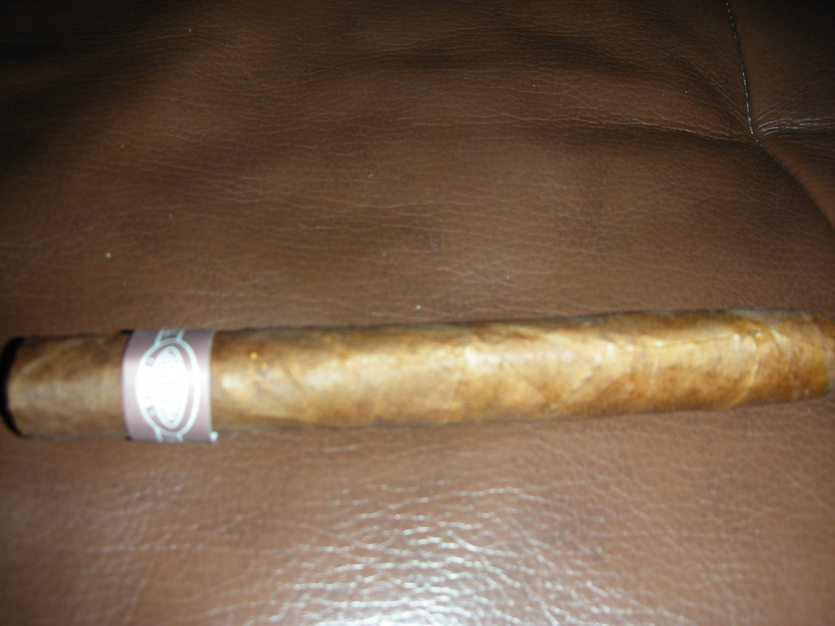 A cigar by the brand José L. Piedra